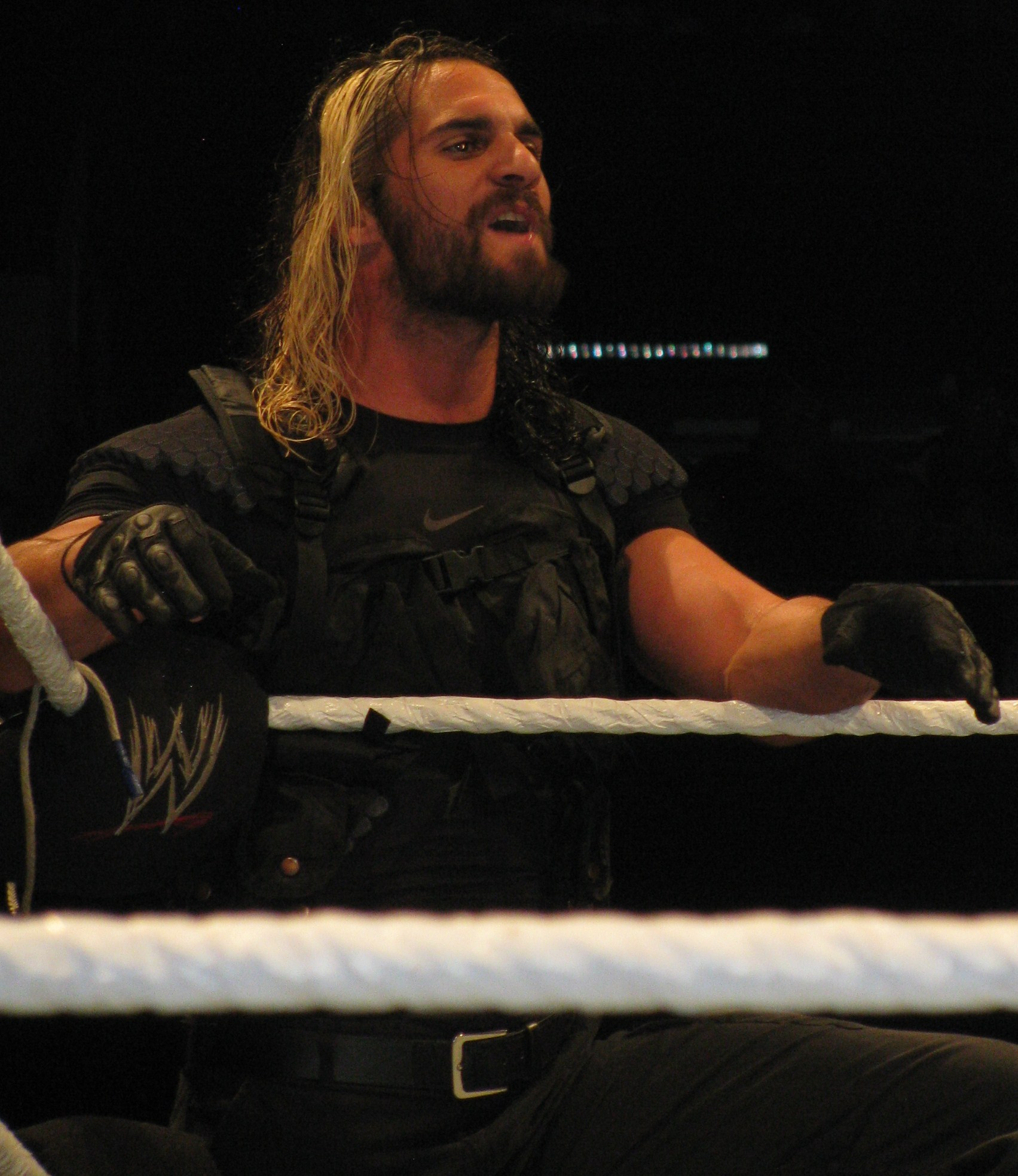 Seth Rollins @ Adelaide, South Australia WWE house show on the 29th of July 2013